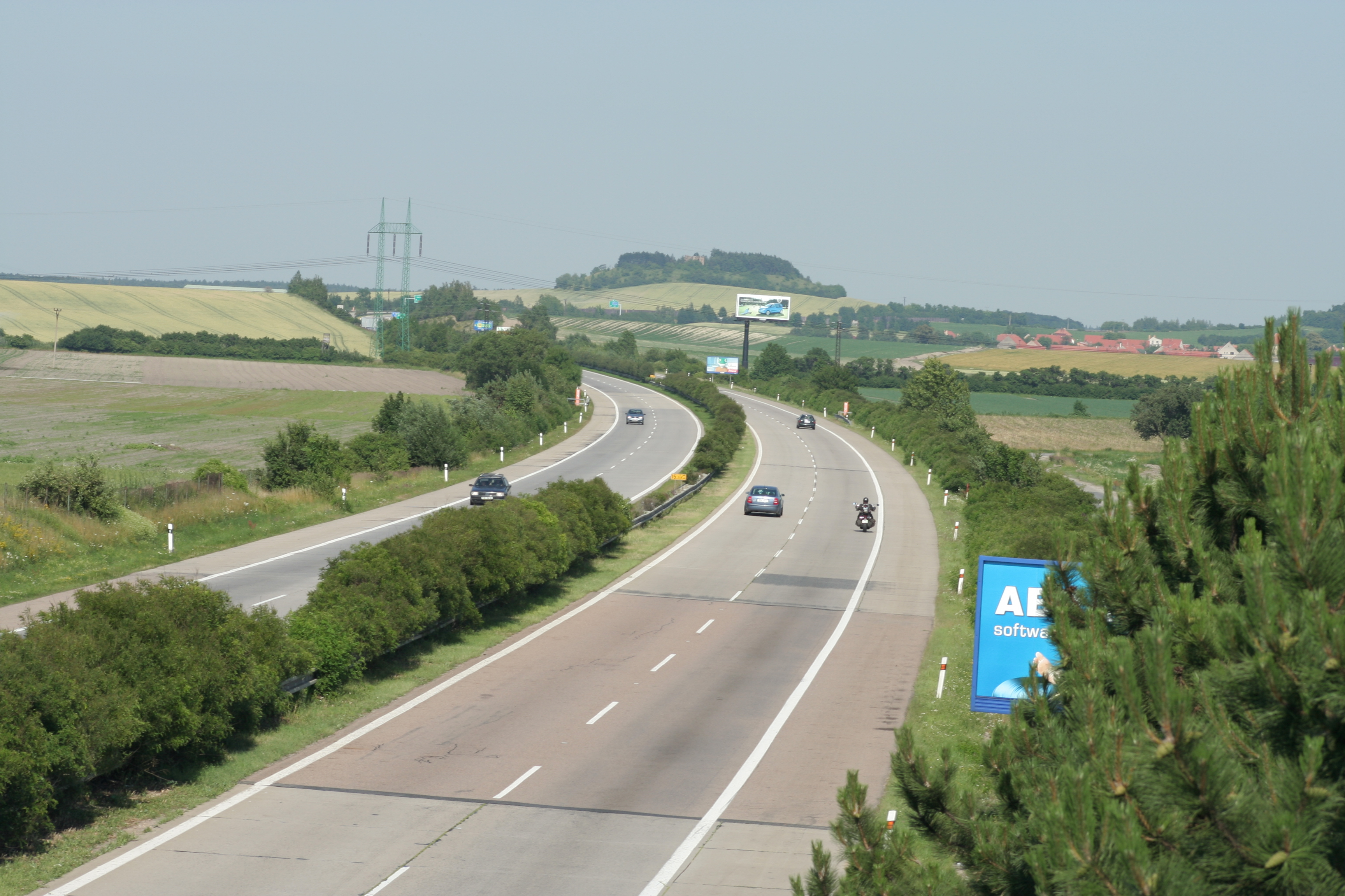 15 through 18 kilometre of Highway D11 near Bříství, Czech Republic.